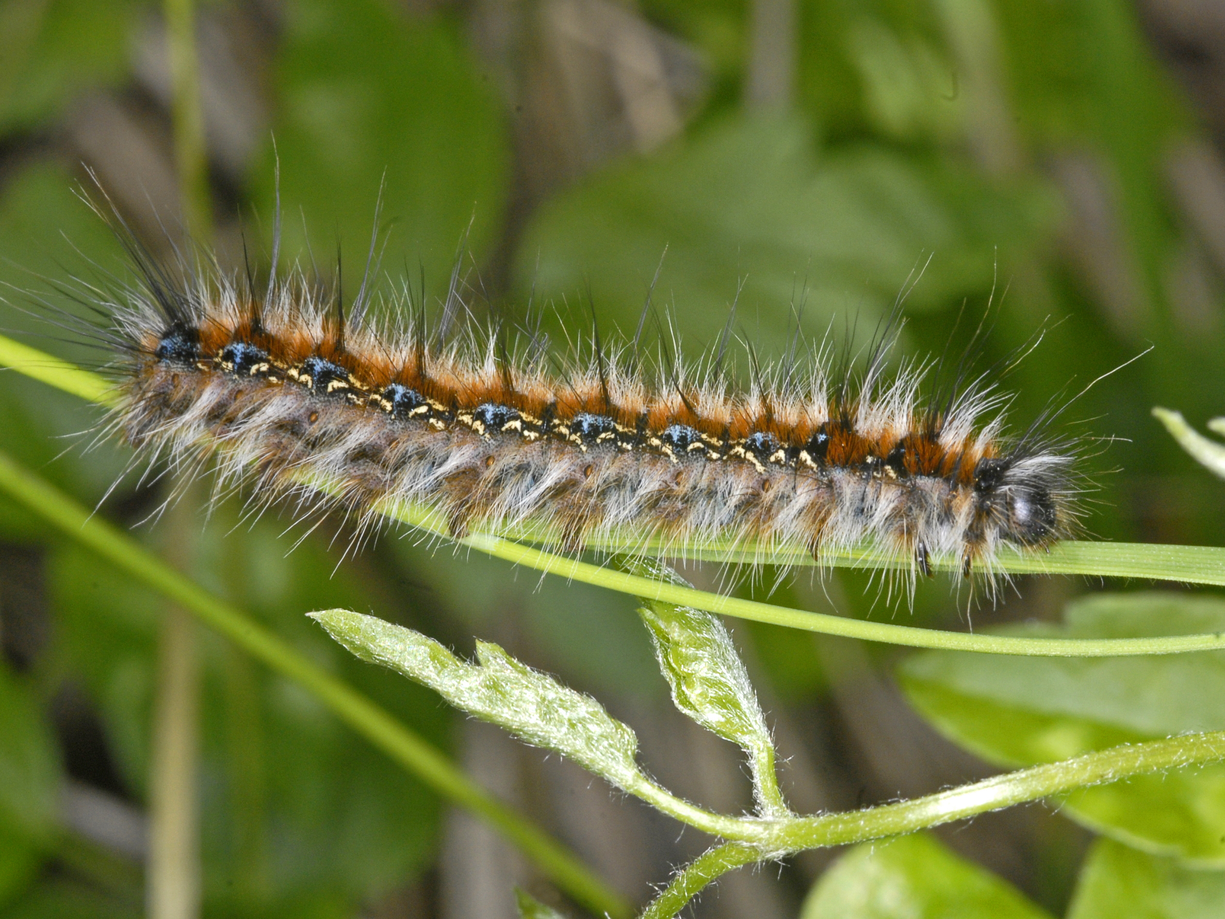 Caterpillar of "Eriogaster catax". Vi Superiore, Genova, Italy